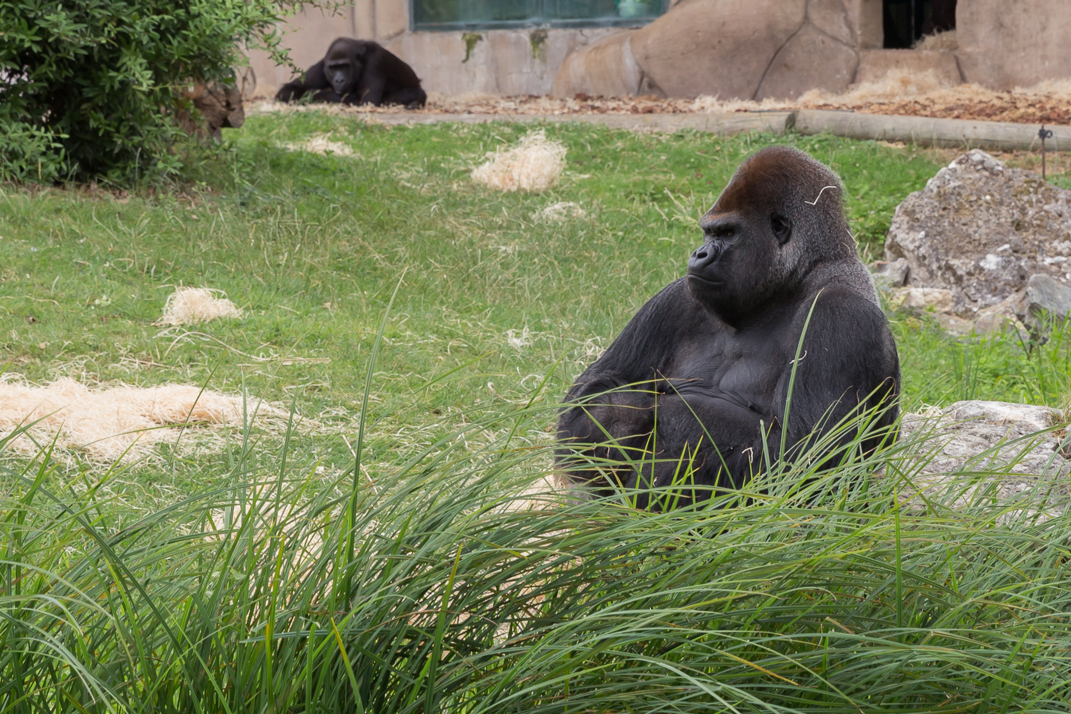 Gorilla gorilla gorilla (Western lowland gorilla) male au ZooParc de Beauval à Saint-Aignan-sur-Cher, France.